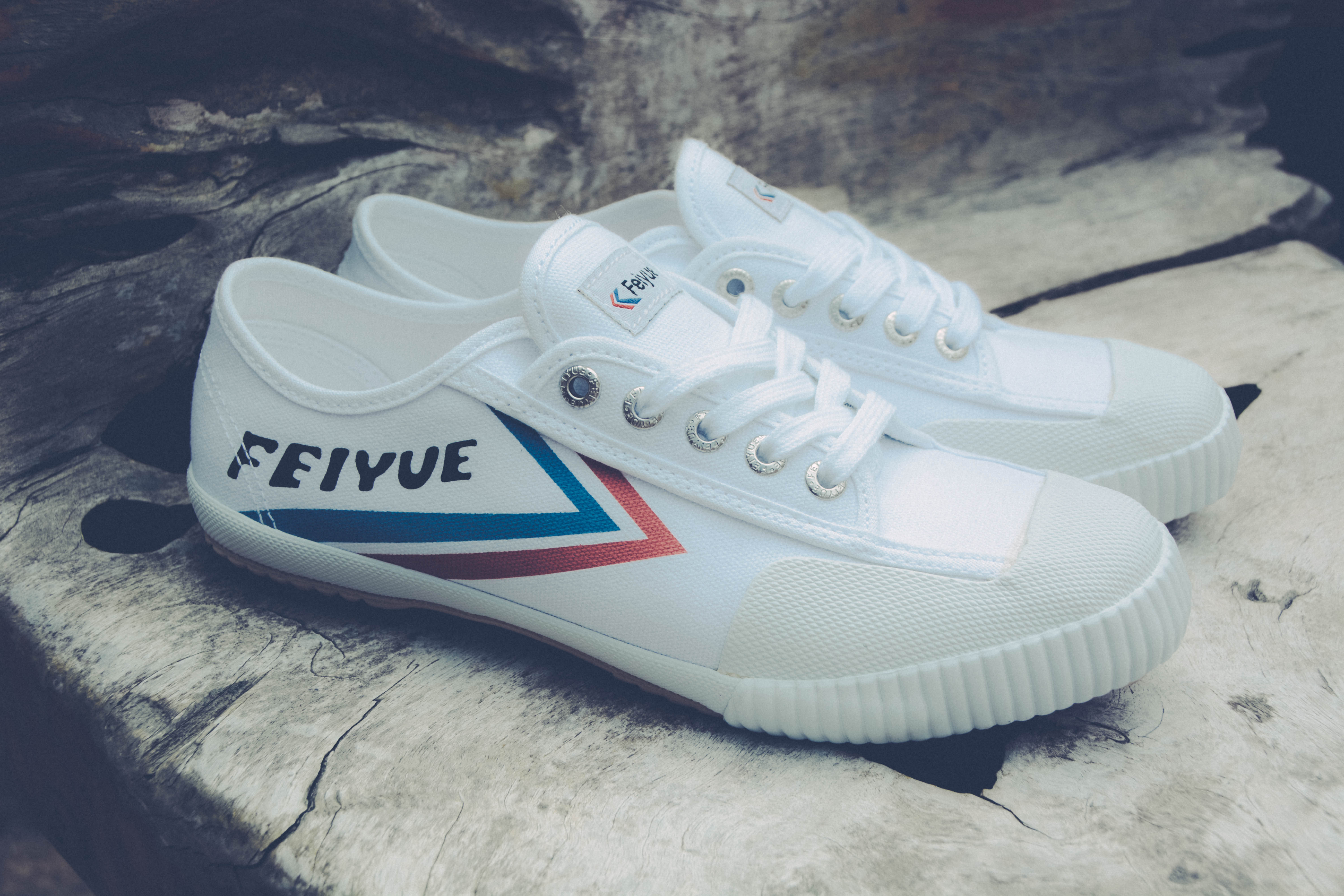 Feiyue Shoes US Social Campaign 2016